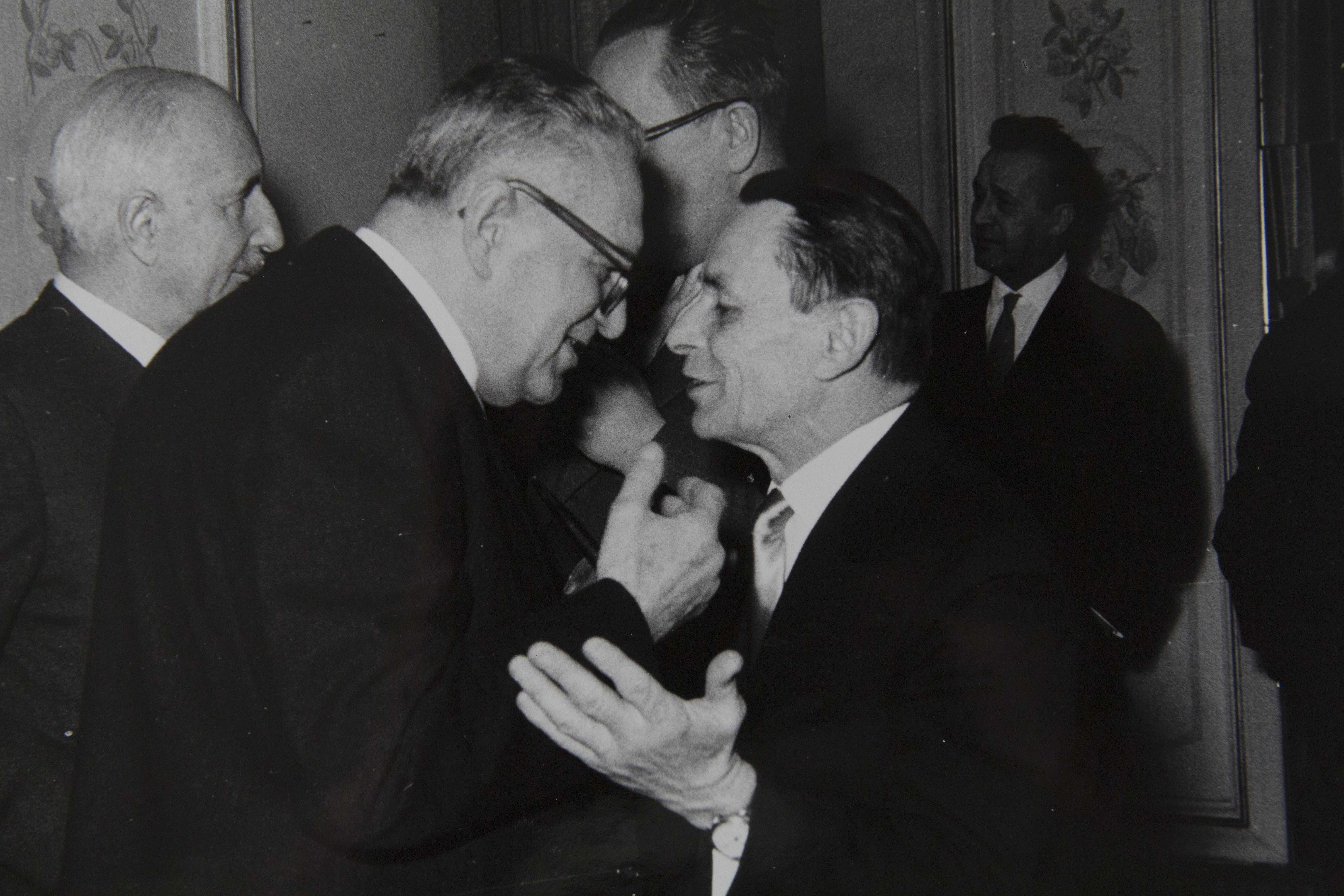 Copy of Armand Vetulani and Bohdan Marconi photograph in 1960 or later